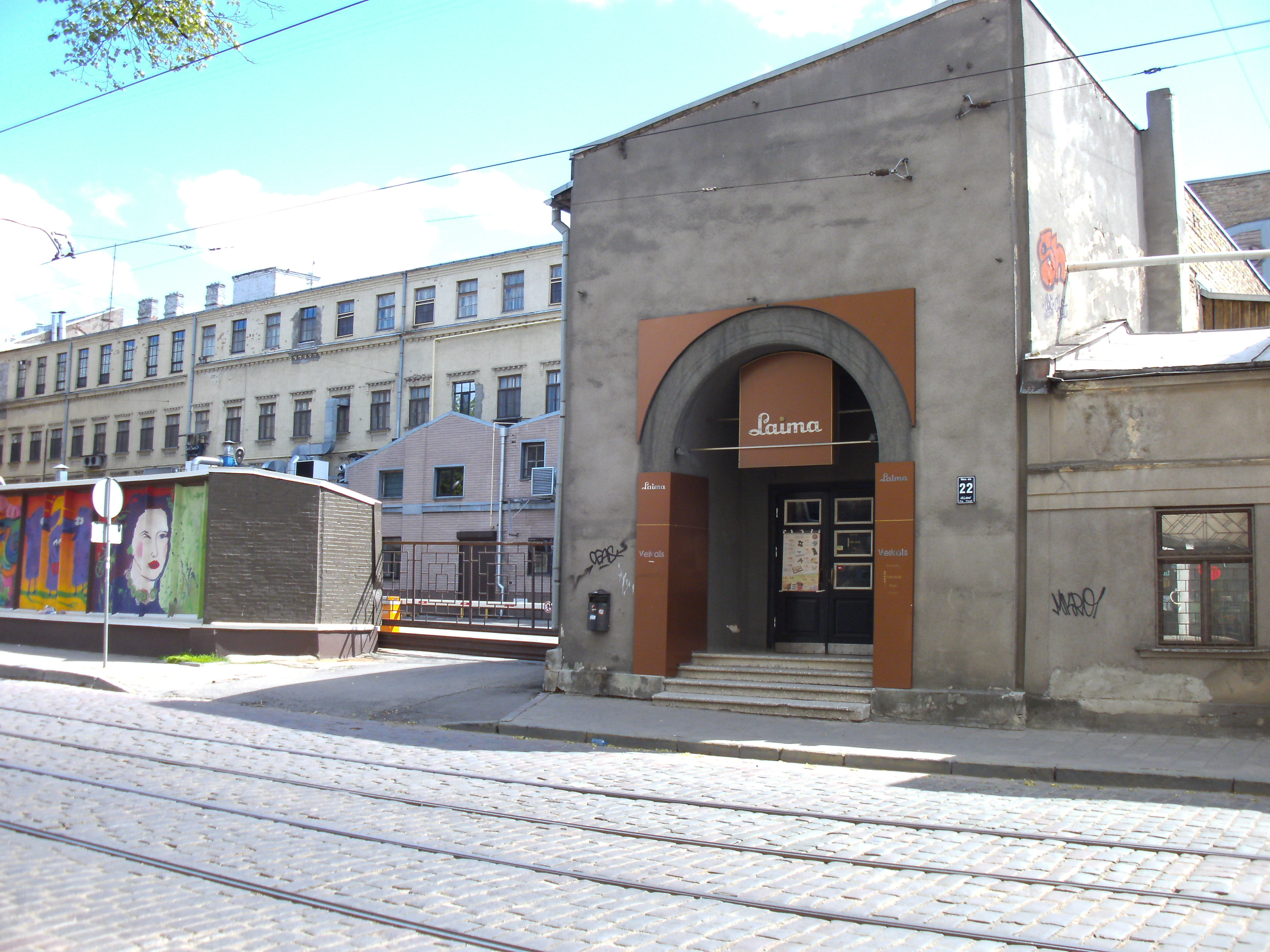 A view of a street in Riga